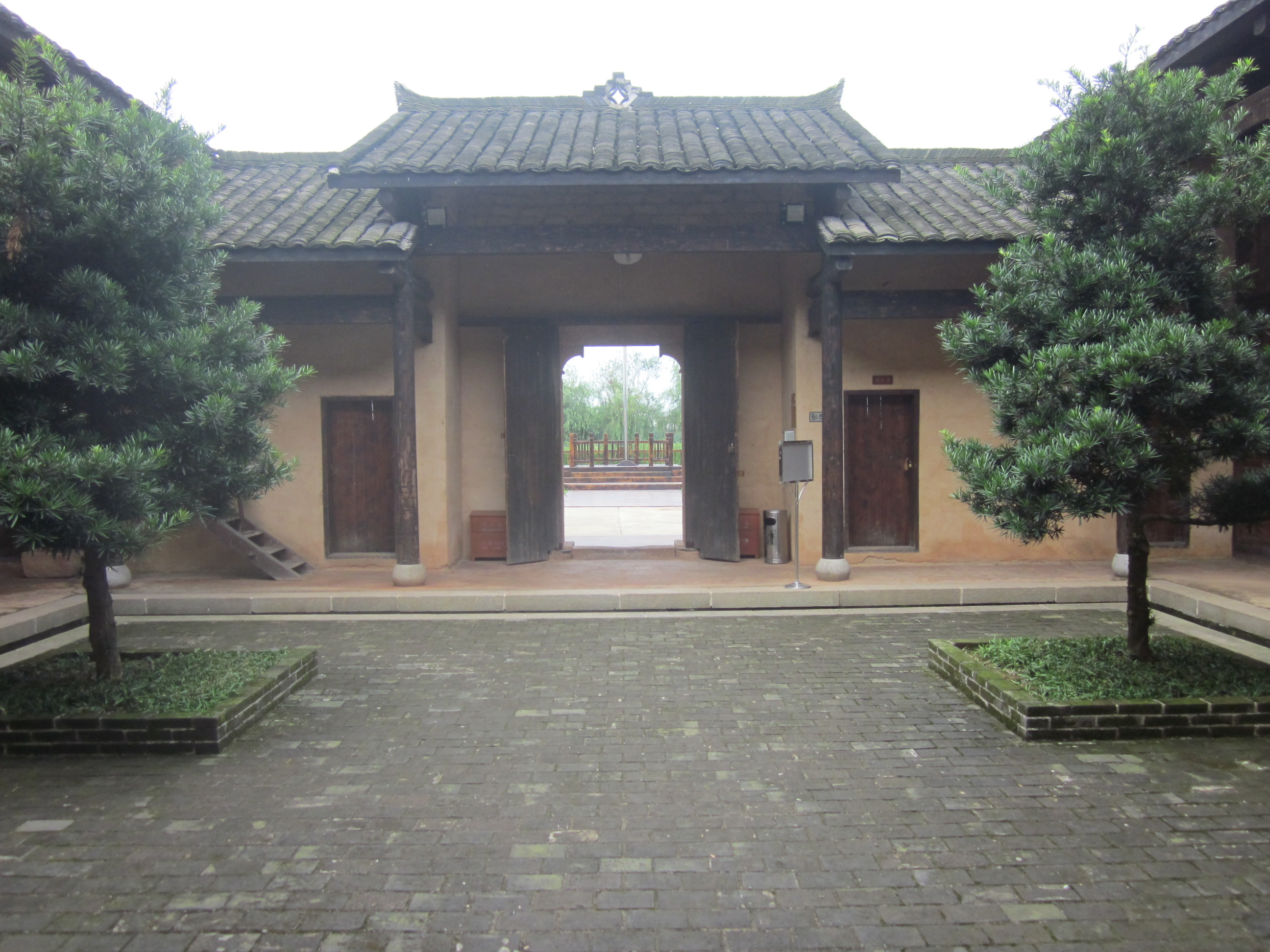 Wang Zhens Former Residence (Chinese: 王震故居) was built in the late Ming Dynasty, it is located in Liuyang City, Hunan Province, People's Republic of China.